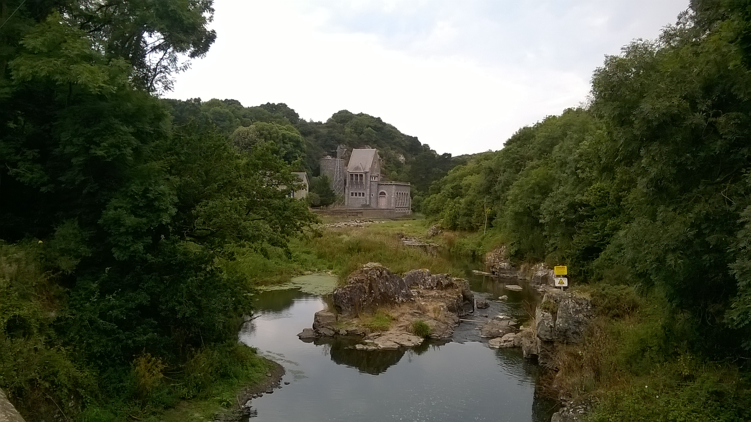 Hydropower in Brittany, mill and electricpower, France